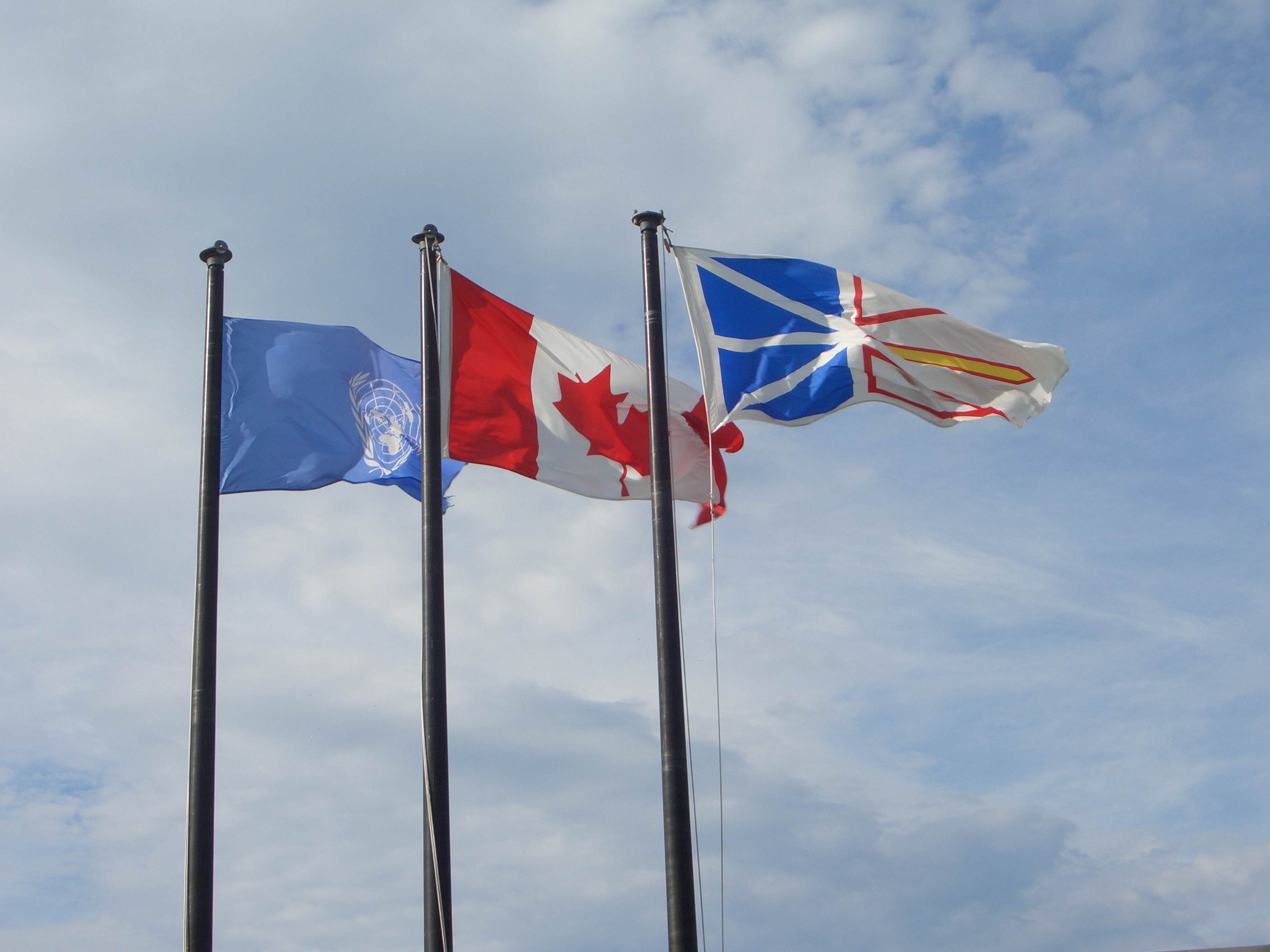 L'Anse aux Meadows National Historic Site L'Anse aux Meadows, Newfoundland CANADA digital photograph taken August 7, 2006 by Kevin Bunt